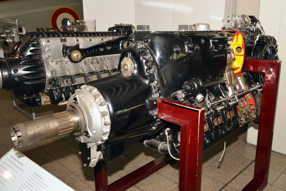 Daimler-Benz DB 603E